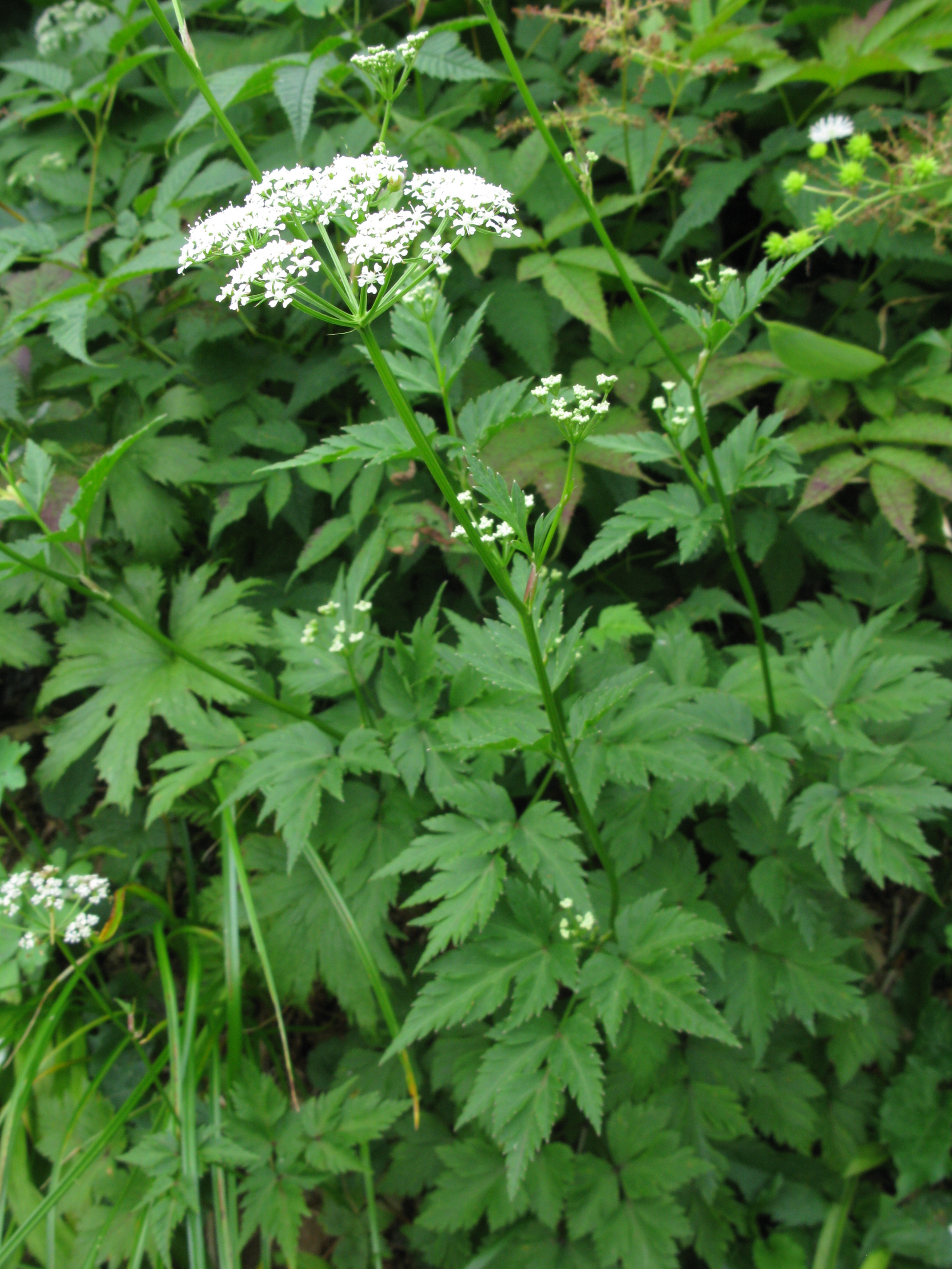 Tilingia holopetala, Mount Chōkai, Yamagata pref., Japan